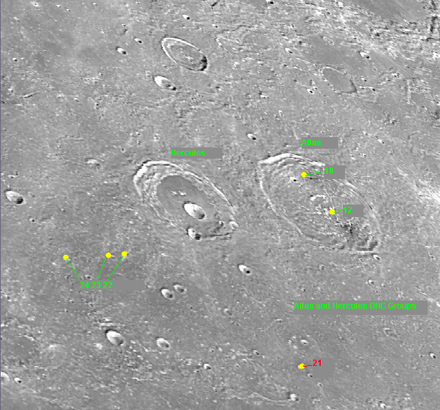 Atlas and Hercules DHC Groups: Plot of DHCs. Image courtesy of LTVT. Two-digit id nos. corresponds to ALPO 1976 DHC list. C. Atlas dia. 87km